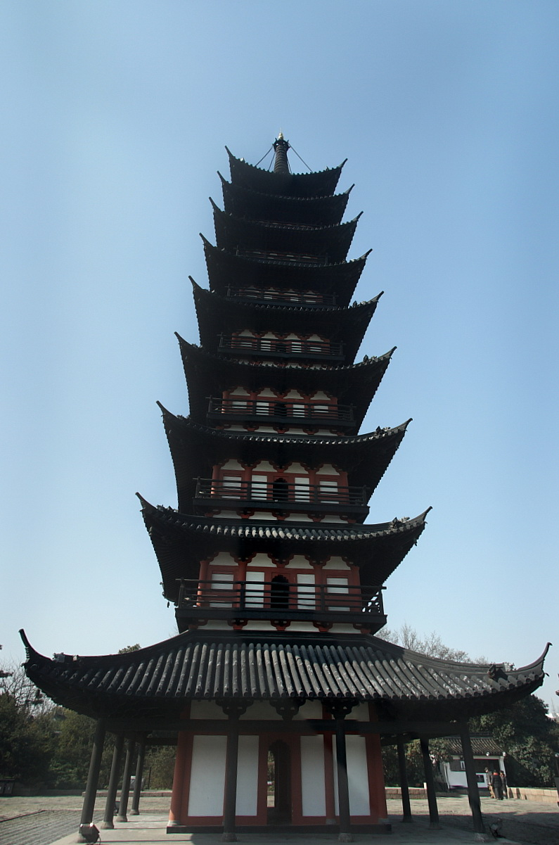 Square tower in square tower park,Songjiang,Shanghai,China